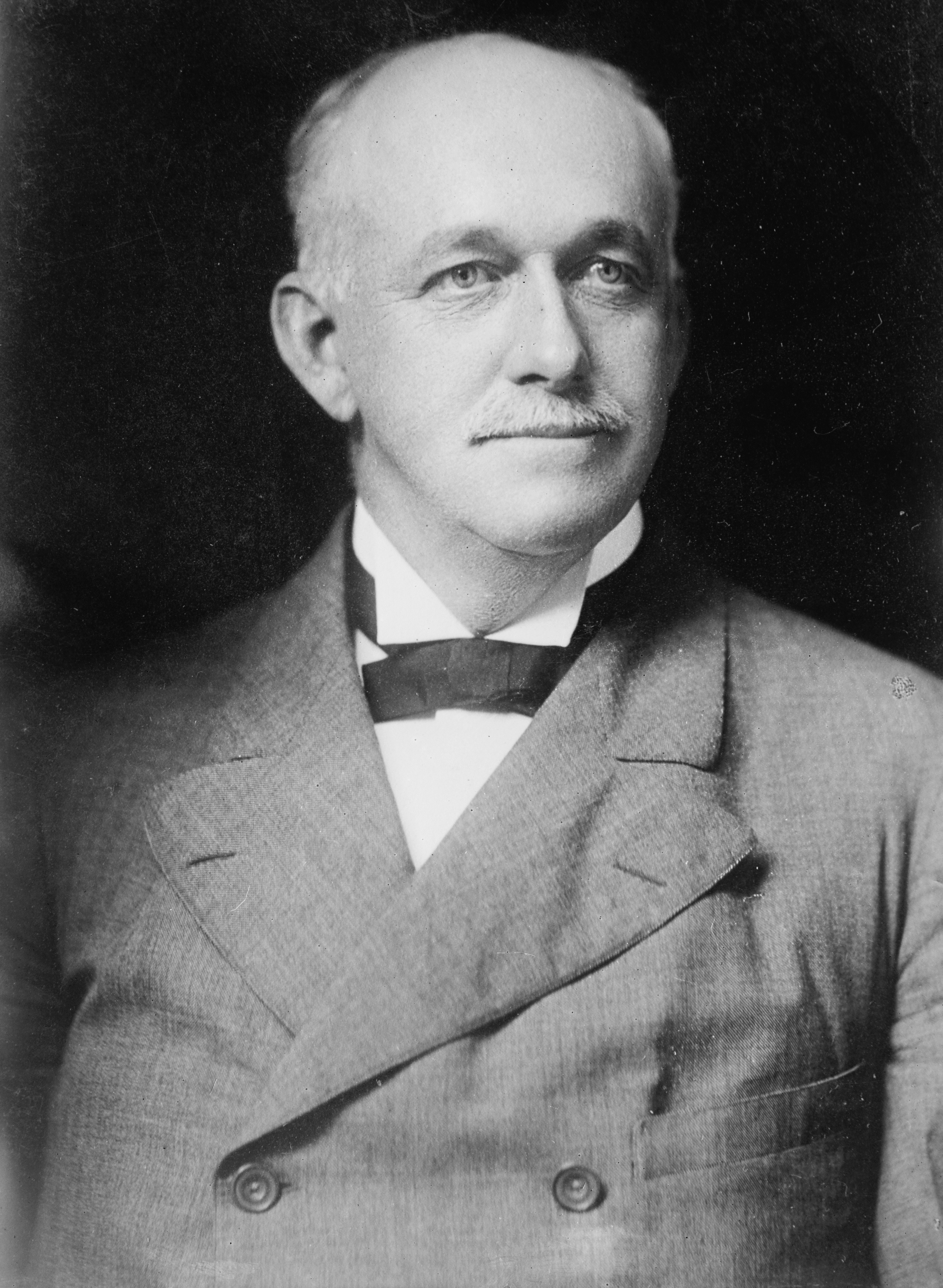 Henry E. Huntington (1850-1927) — railroad magnate, land developer, and business leader in Southern California.